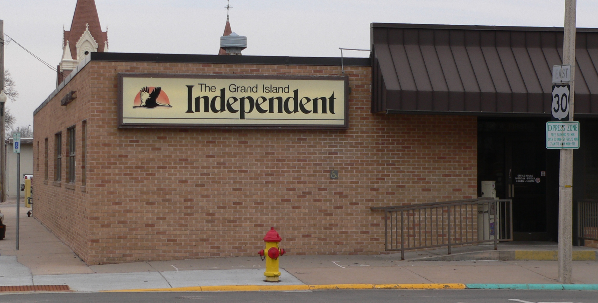 Southwest corner of Grand Island Independent building at 422 W. 1st Street in Grand Island, Nebraska.